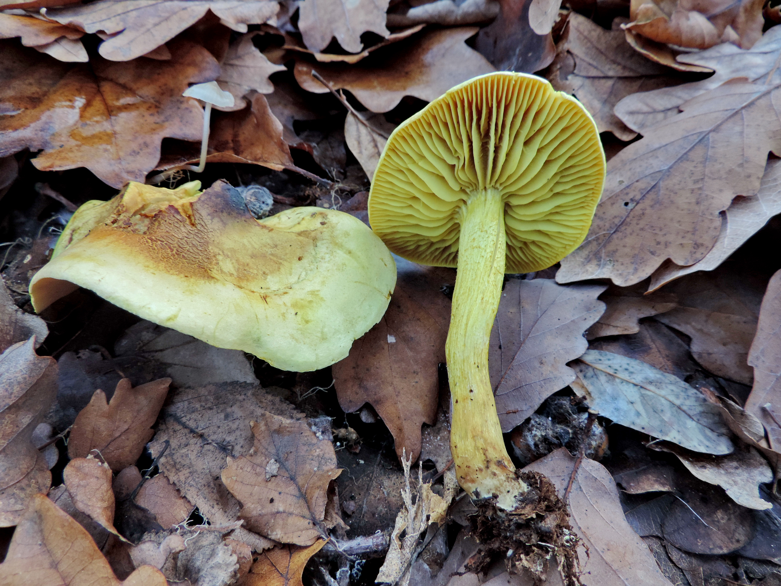 Tricholoma sulphureum in an oak wood on the Ládví hill, Prague, the capital of the Czech republic.